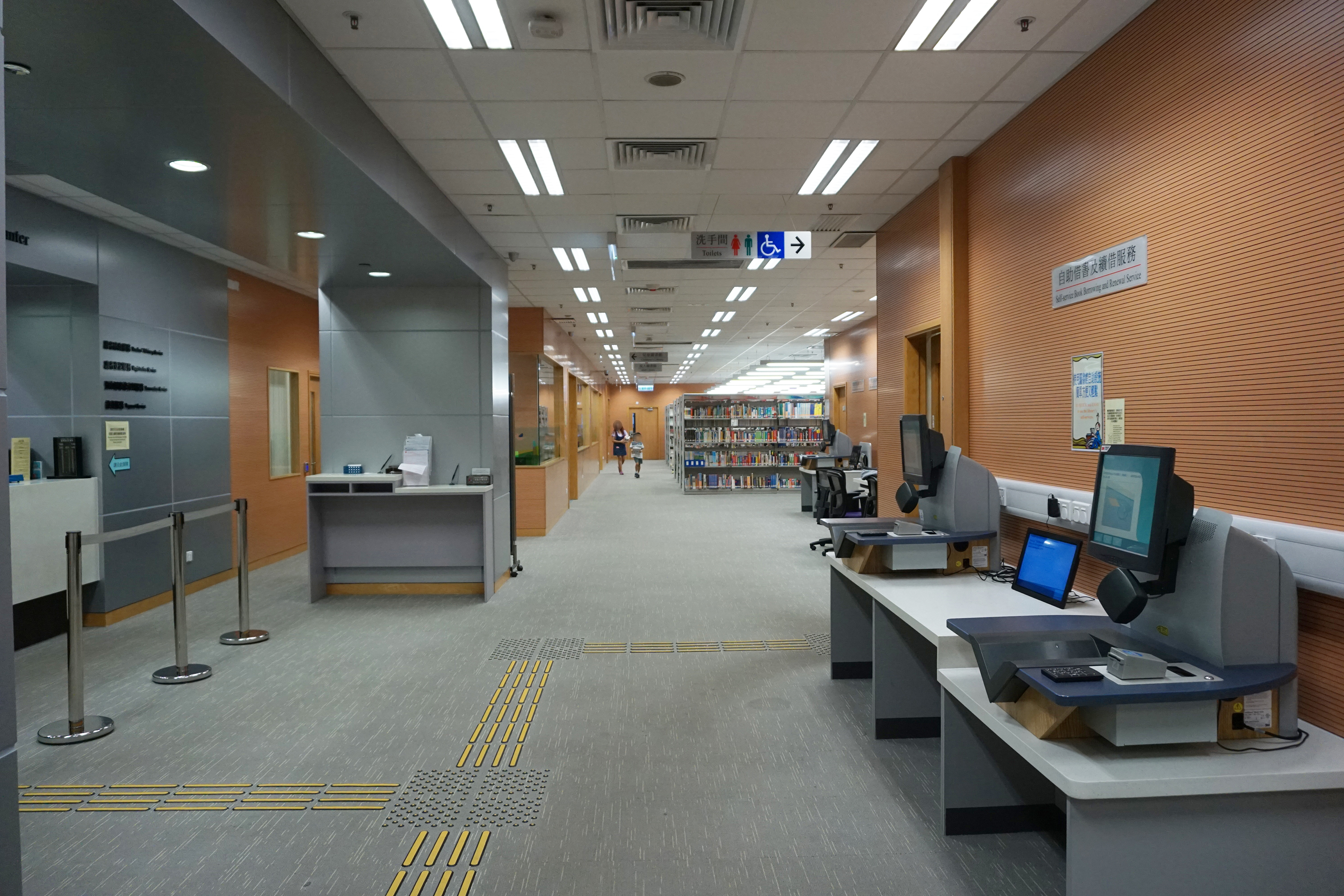 Public Library in Shek Kip Mei, Hong Kong.